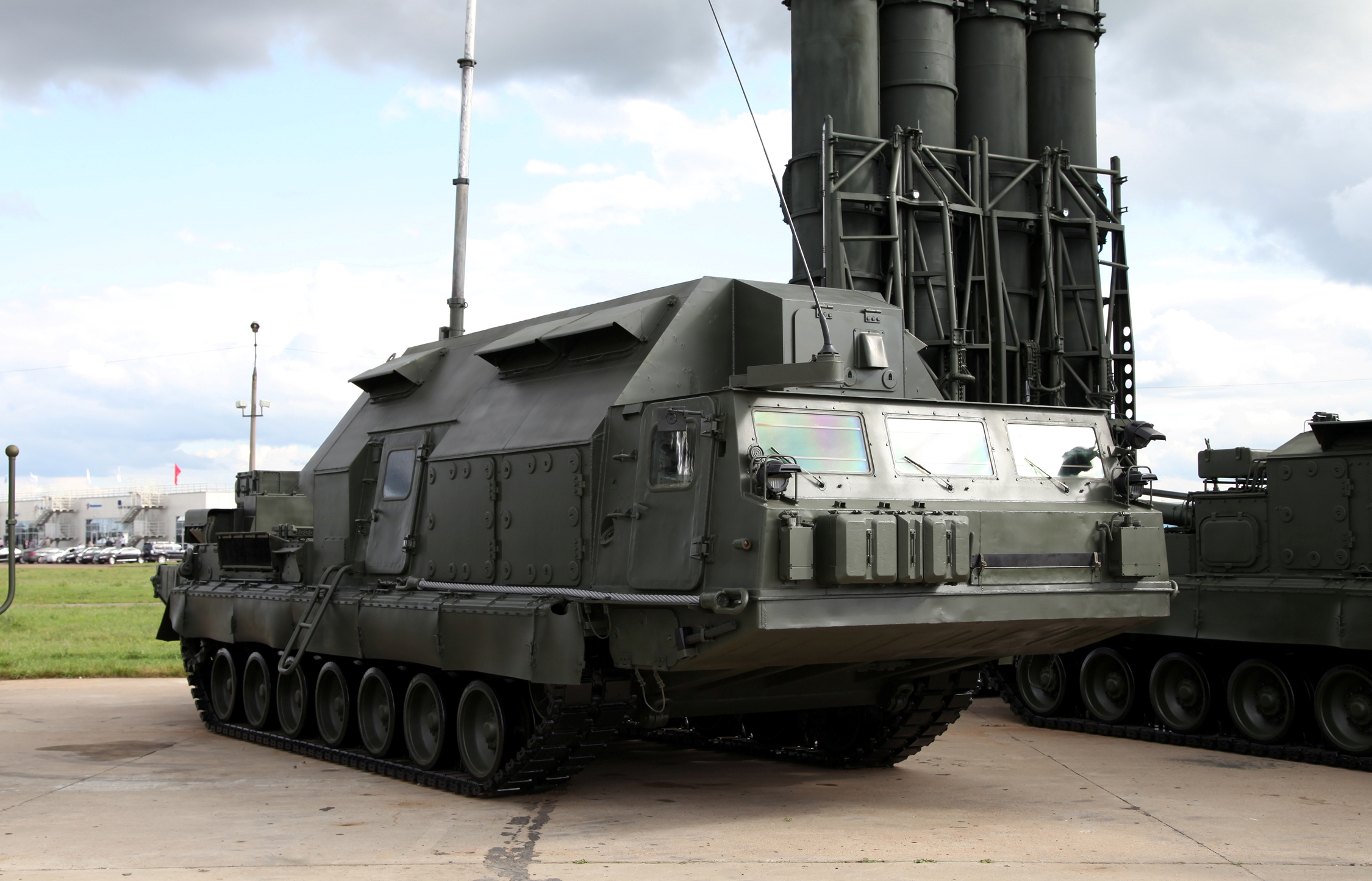 S-300V air defence system at Engineering Technologies 2012 in Russia.